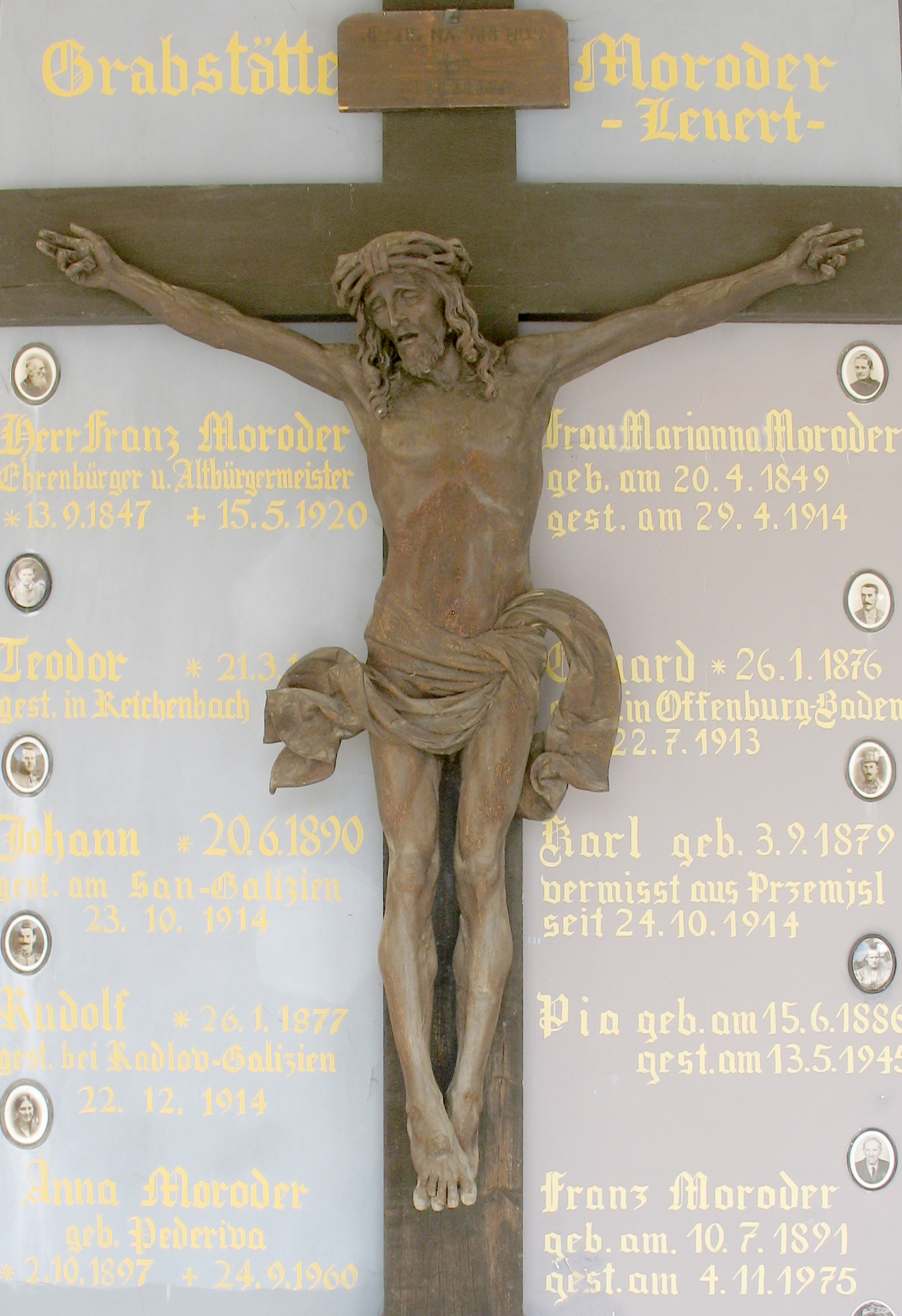 Crucifix in the Cemetery of St. Ulrich in Gröden. Grave of Franz Moroder-Lenert and his family. - Ortisei Val Gardena - Sculptor Ludwig Moroder